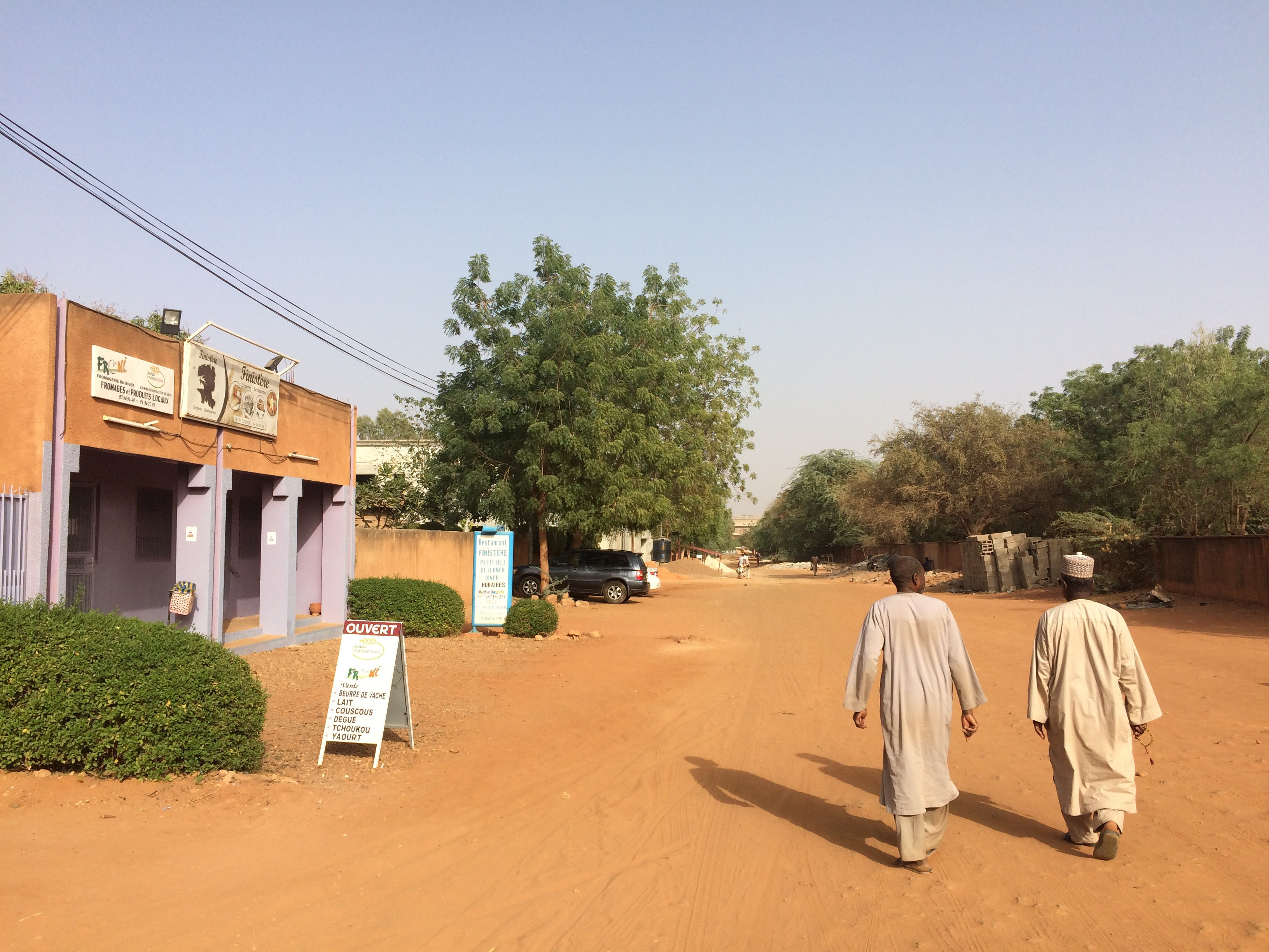 Street scene with restaurant 'Finistère' in the Rue de la Magia (Rue IB-10), Issa Béri neighborhood, Niamey, Niger.